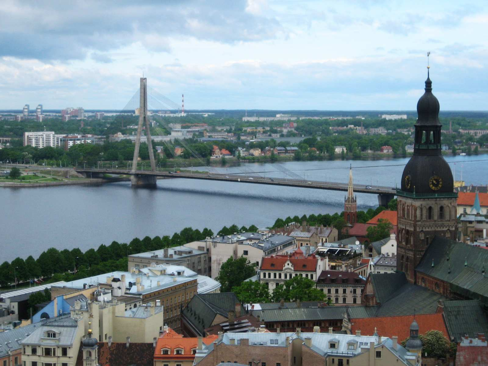 Daugava in Riga, as seen from St. Peter Church Tower.